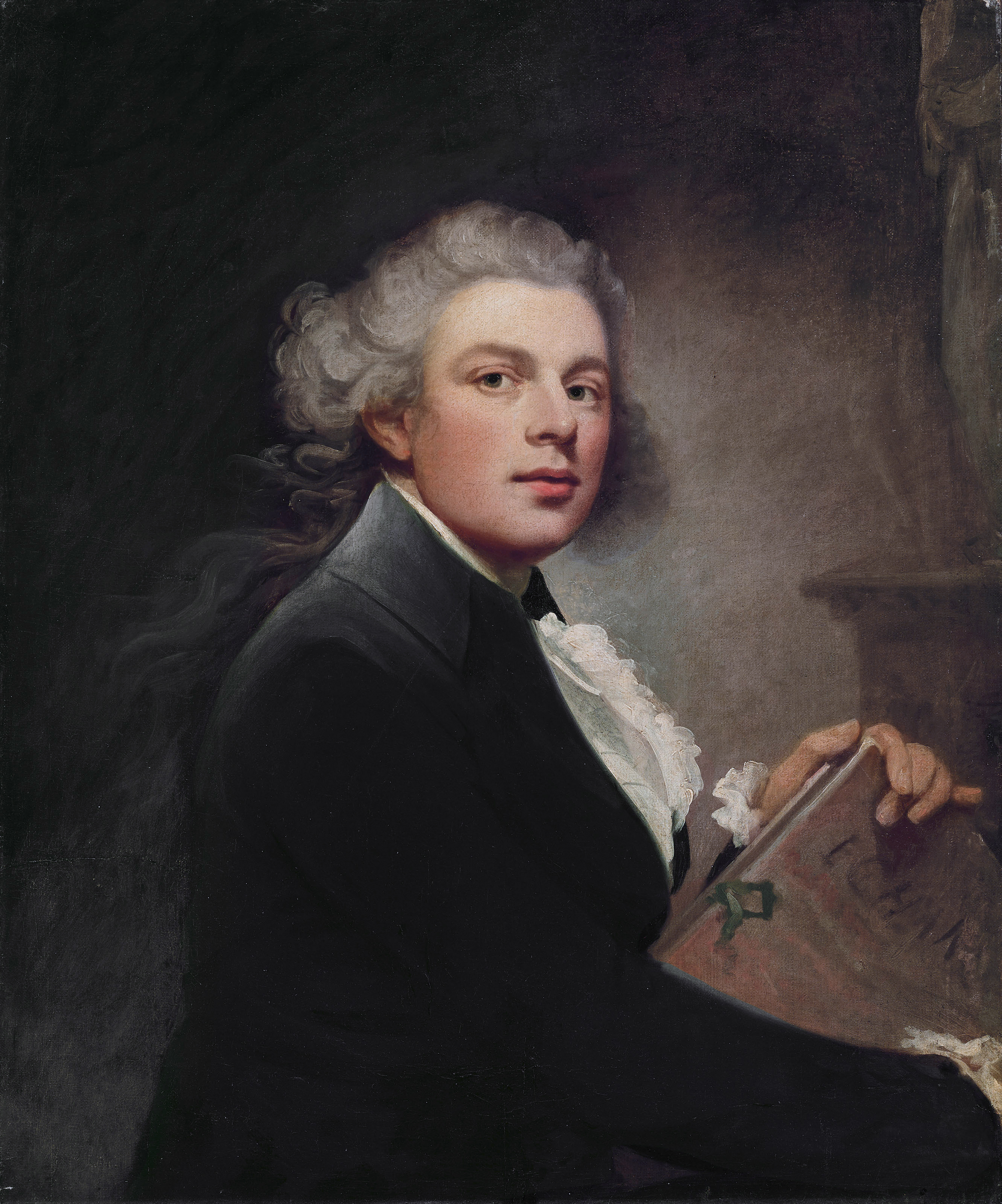 Portrait of the artist, half-length, holding a portfolio signed 'I CHAND...' (center right, on the portfolio) oil on canvas 75.6 x 62.6 cm signed c.r.: I CHAND...